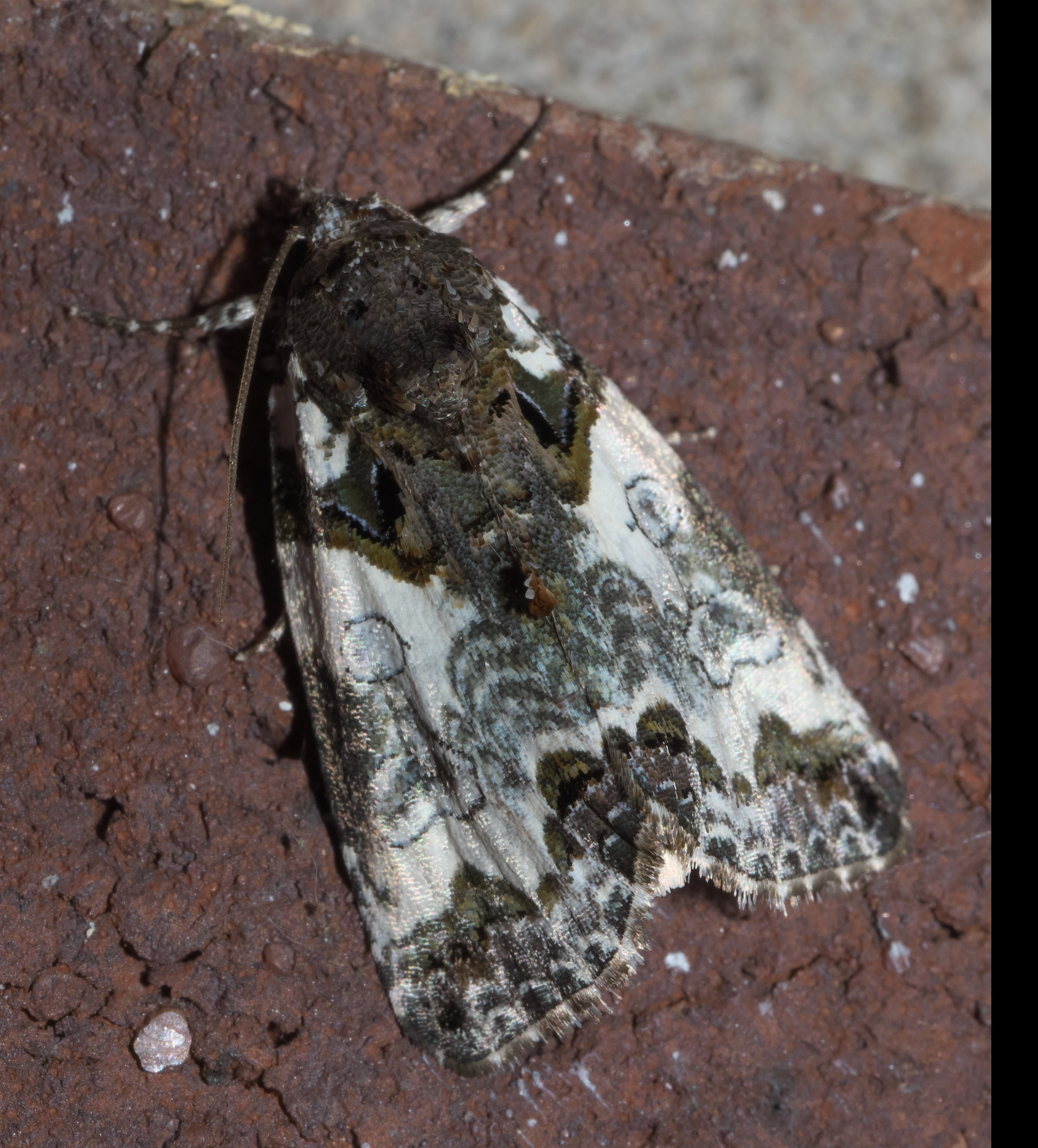 Cerma cerintha, Tufted Bird Dropping Moth - Hodges #9062, ID Confidence: 88